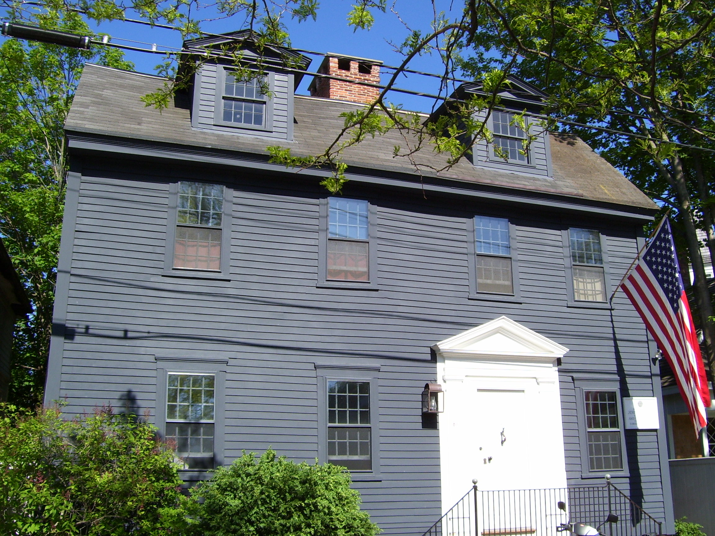 This is my 2008 photo of the Goddard House in Newport Rhode Island.